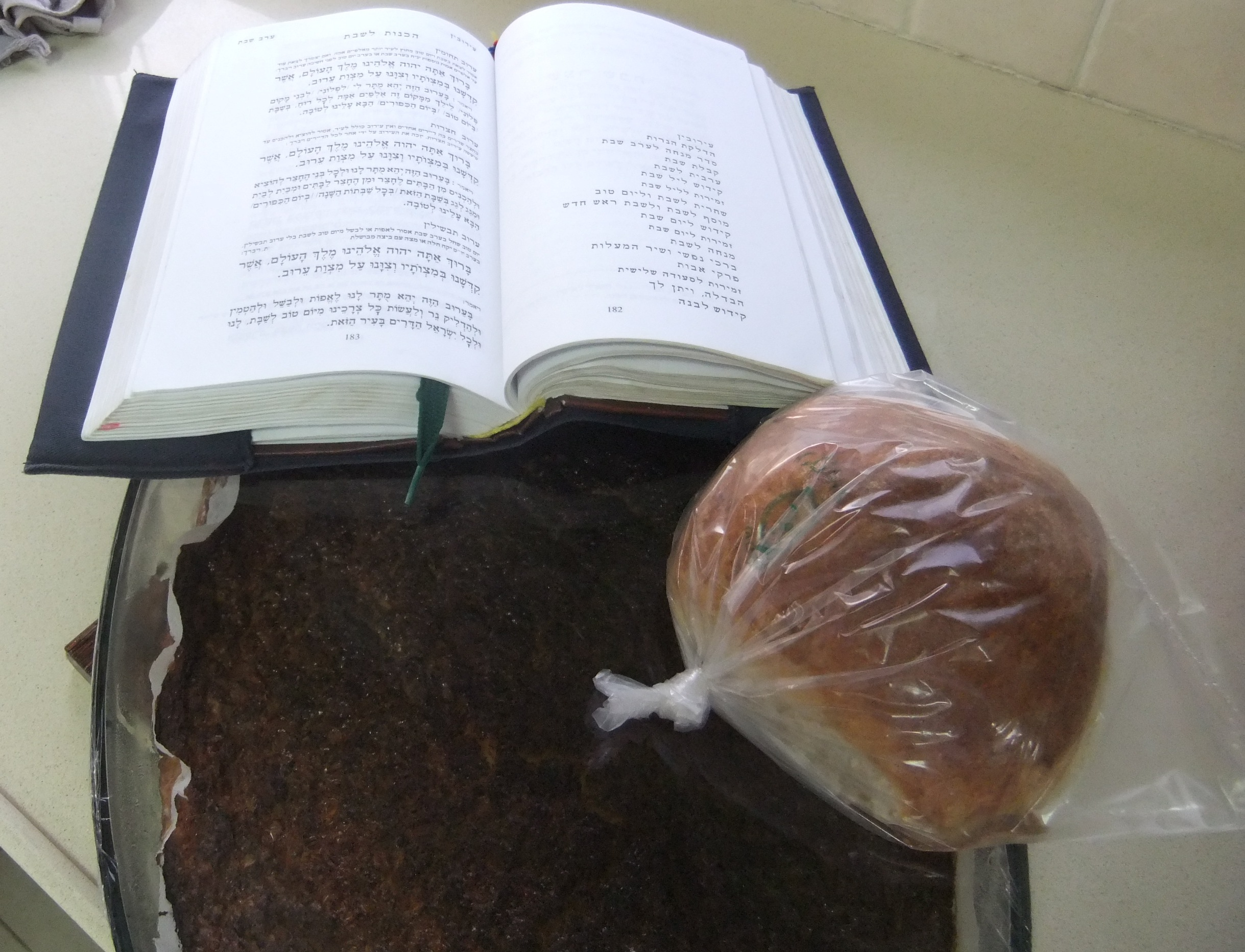 Eruv tavshilin. Bread and a dish ready from before Yom Tov to be consumed on Shabat and therefore rapped in plastic. The siddur is opened at the page of the blessing.